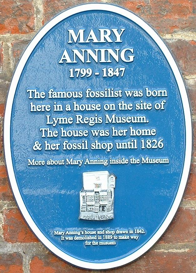 Photographed by me: Gaius Cornelius 18:06, 14 August 2006 (UTC)